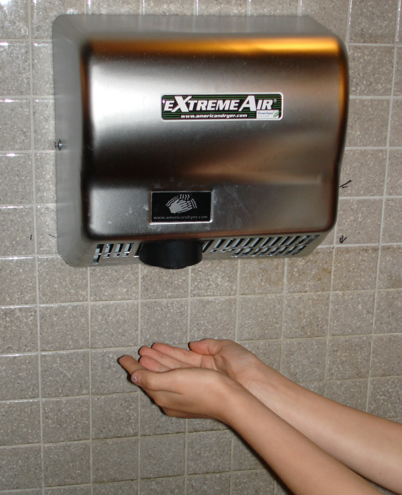 Air Hand Dryer